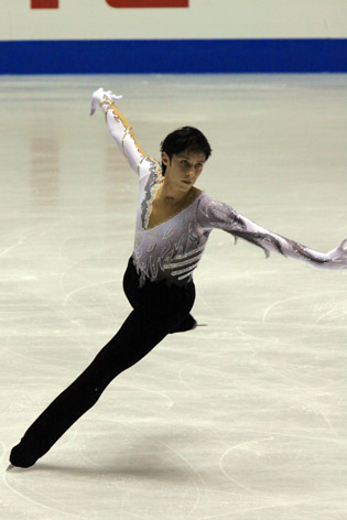 Johnny Weir at the 2009-2010 Grand Prix of Figure Skating Final.